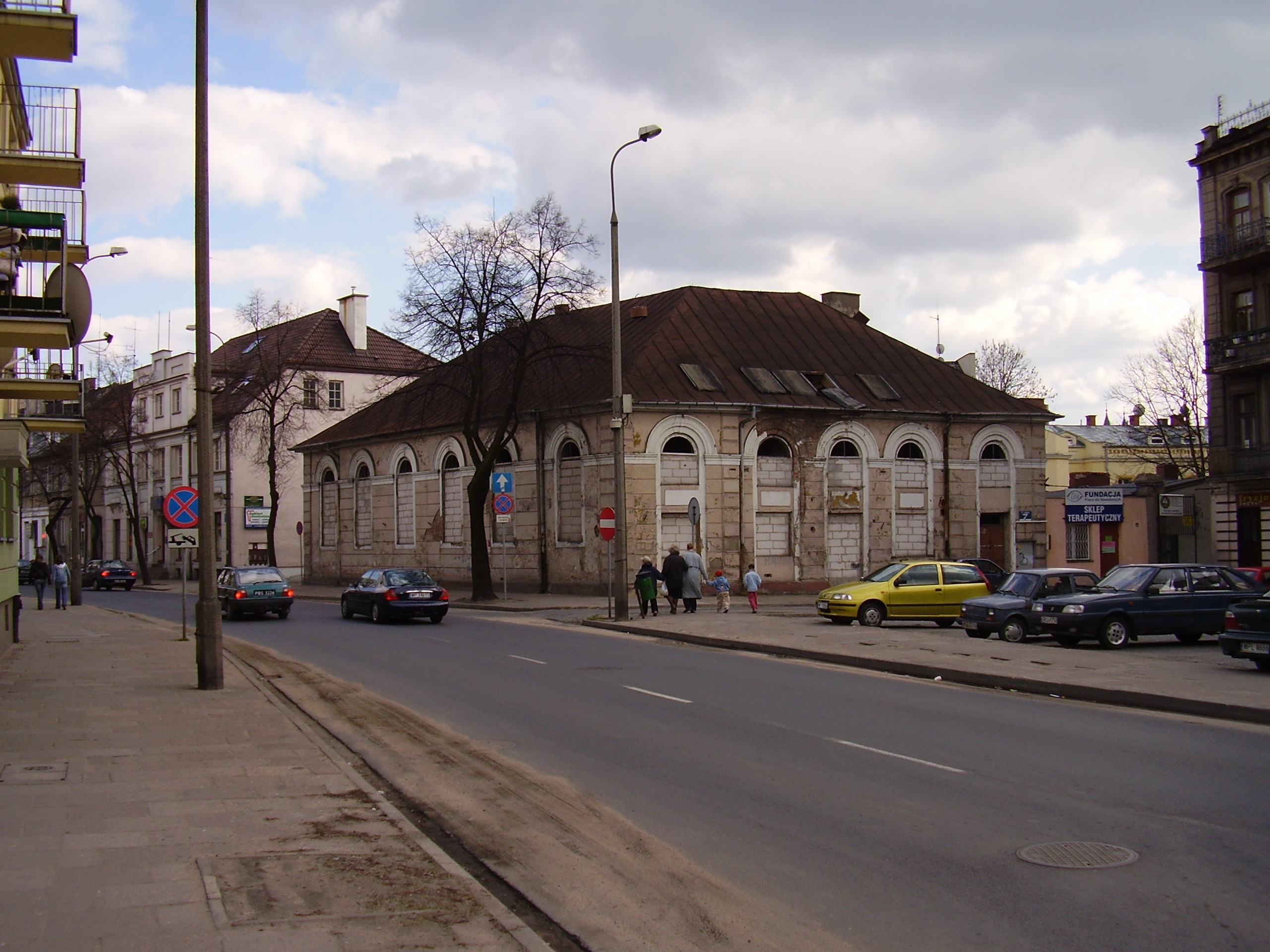 Remnants of the last synagogue in Płock Author: Ruben Castelnuovo (myself) - 2006 04 15